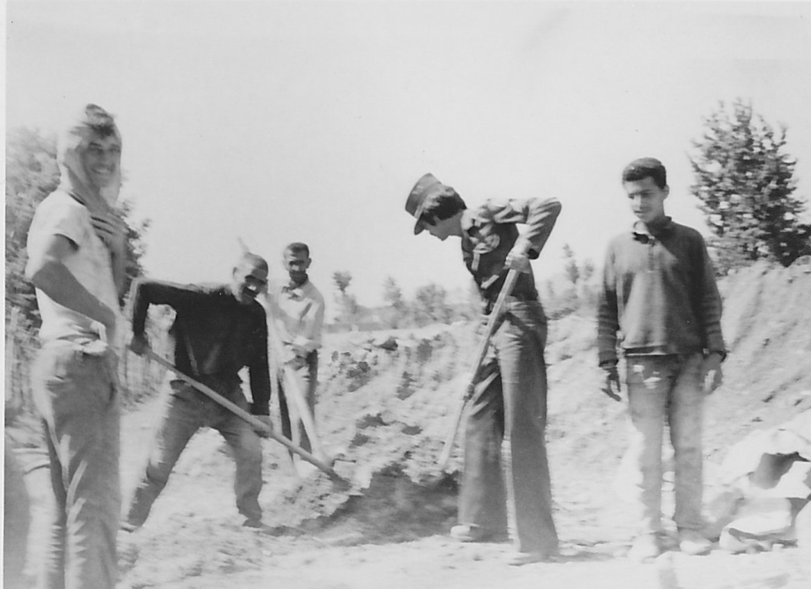 Sepah-e Tarvij building fundments of a school in North Iran